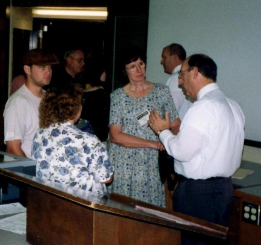 Author Jay A. Parry talking to attendants of BYU's Education Week, 1999.